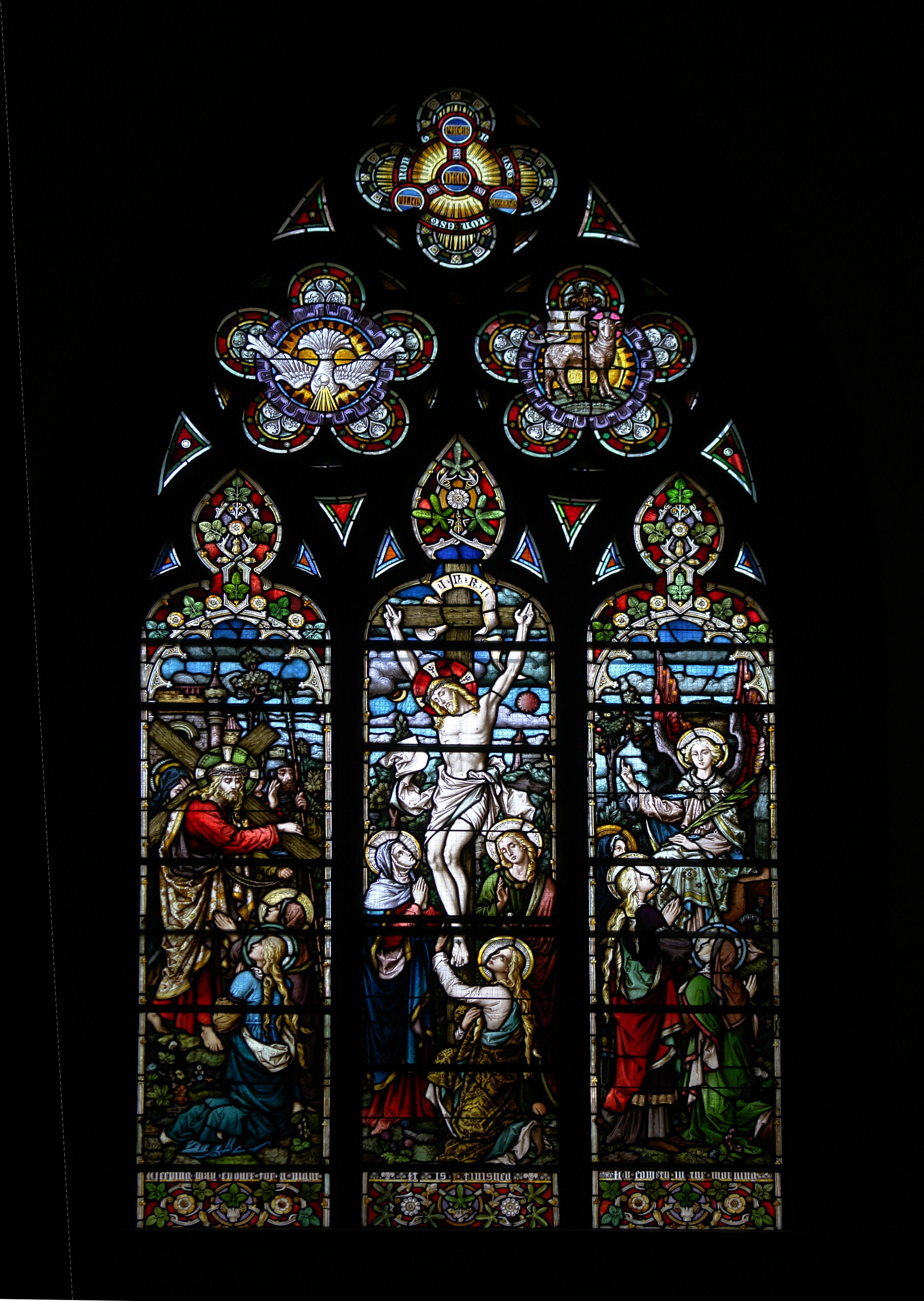 Stained-glass window, Holy Trinity Church, Geneva, Switzerland.